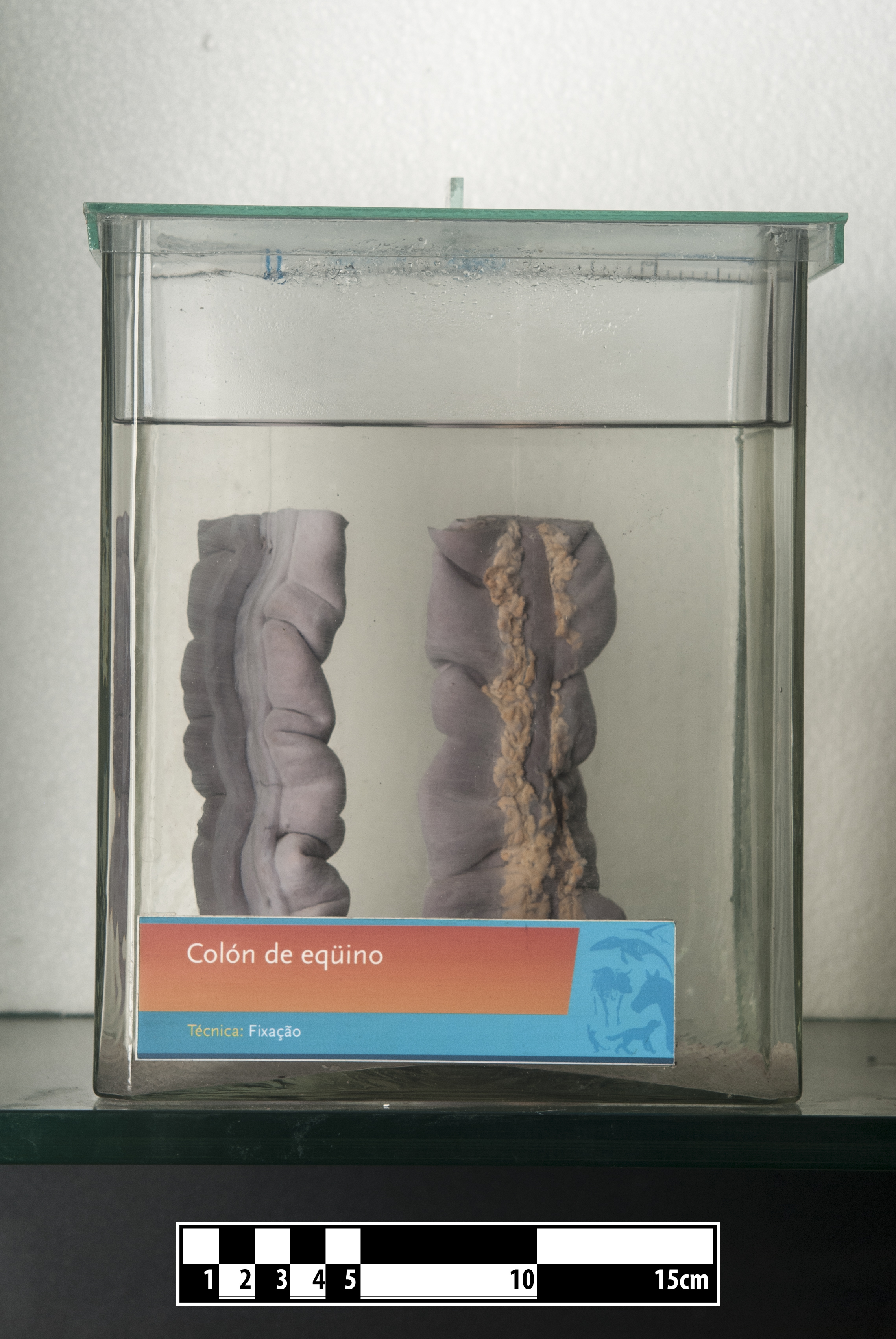 Equine colon. Equus Technique of formalin fixation on display at the Museum of Veterinary Anatomy, FMVZ USP. This file was published as the result of a partnership between the Museum of Veterinary Anatomy FMVZ USP, the RIDC NeuroMat and the Wikimedia Community User Group Brasil. This GLAM project is reported. Photography: Museum of Veterinary Anatomy FMVZ USP. Author: Wagner Souza e Silva.